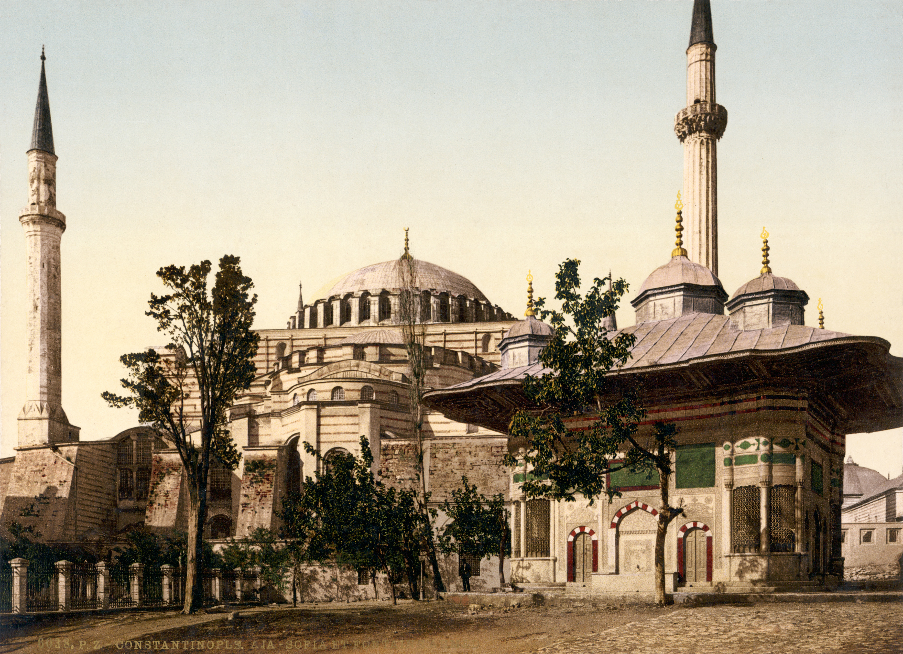 6038 P.Z. Constantinople, Aja-Sofia et Fontaine Ahmed.